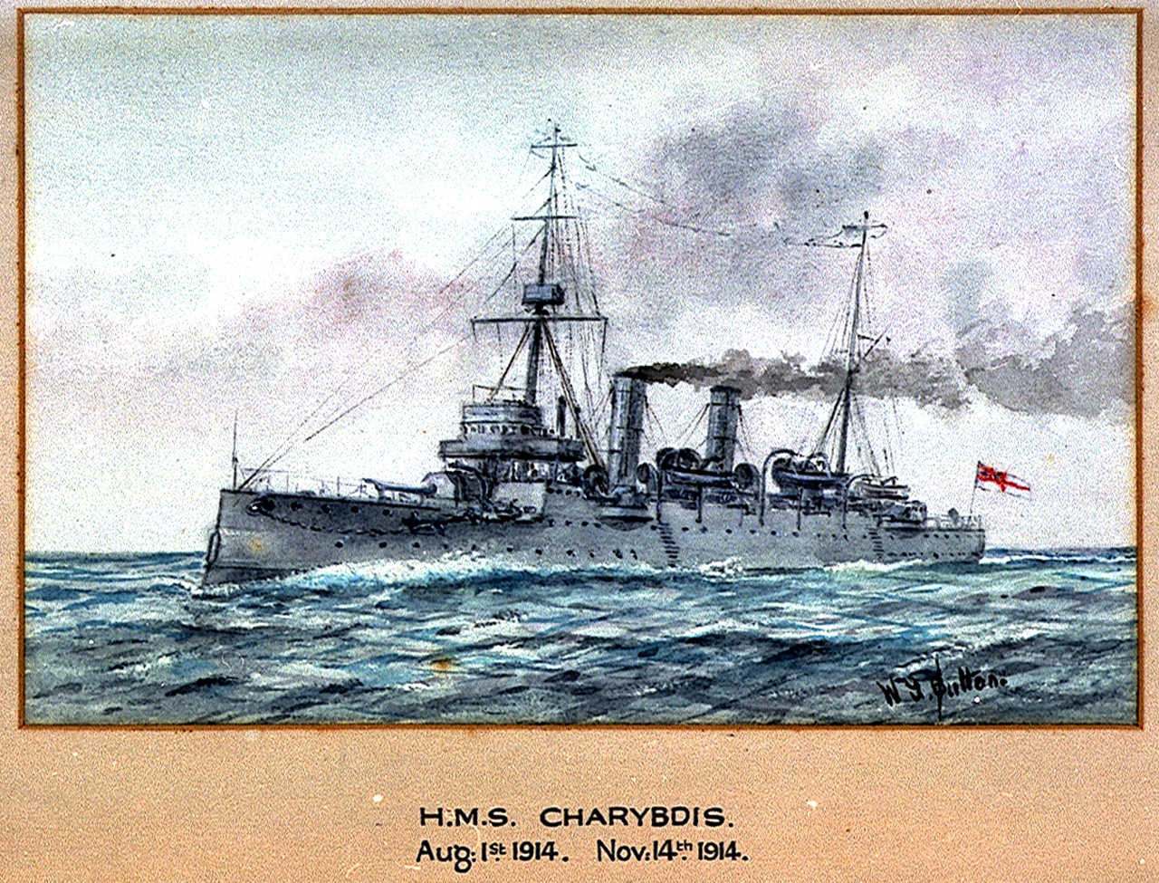 'H.M.S Charybdis Aug 1st 1914. Nov 14th 1914' Signed by artist. One of the eight ships of the 'Astraea'-class of protected cruisers (4390 tons) built for the Royal Navy during the 1890s. They served on a number of foreign stations during their careers, particularly in the the Indian and Pacific Oceans, and around the Cape of Good Hope. Obsolete by the outbreak of the First World War, they continued in use in secondary roles throughout, mainly as training or depot ships and were scrapped soon afterwards except 'Hermione' which remained a Marine Society training ship until 1940. 'Charybdis' spent most of her career in British waters, with occasional voyages to the Indian Ocean and Far East commands. She became part of the 12th Cruiser Squadron on the outbreak of war, but was damaged in a collision in 1915 and was laid up at Bermuda: this drawing in fact shows her with the high topmasts she carried only between 1908 and 1914. Used for harbour service from 1917 she was converted to a merchant vessel and loaned to a shipping firm in 1918, then returned to the Navy in 1920, sold in 1922 and broken up in 1923. Nothing is known of the artist, W. J. Sutton, except that he painted British warships in watercolour, the ships shown dating from the mid-1890s to at least the early 1920s. His style is perhaps best described as that of a competent amateur, though it was probably for sale, and examples by him sometimes appear at auction. Given his subject he may have been based at one of the naval ports, such as Portsmouth or Plymouth, and mainly selling to naval personnel. If so, that may explain the dates on the original titled mount of this example as being those between which his client served in the ship shown. This drawing is signed, lower right. [PvdM 4/12]